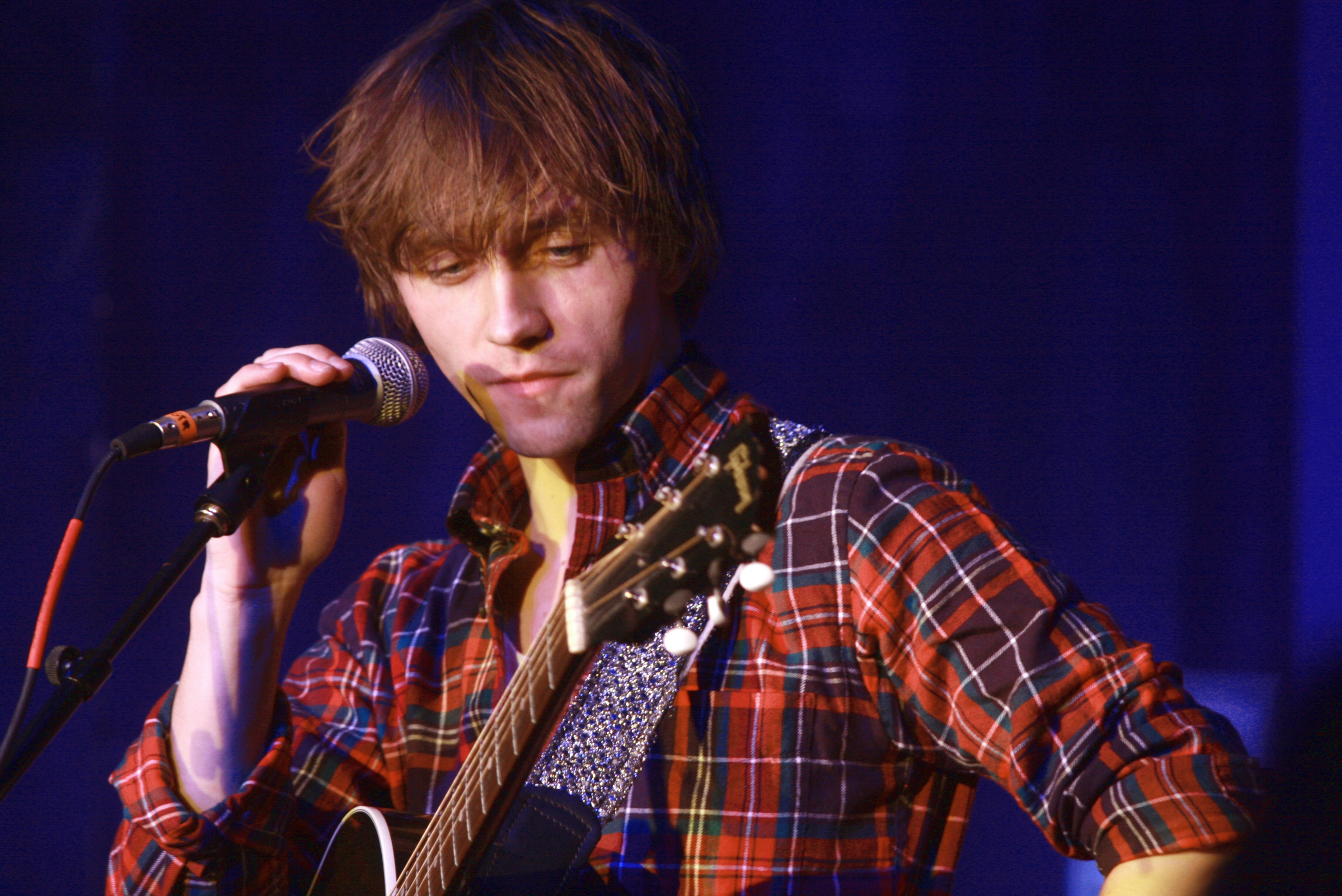 Sondre Lerche playing a the House of Blues on November 10, 2011